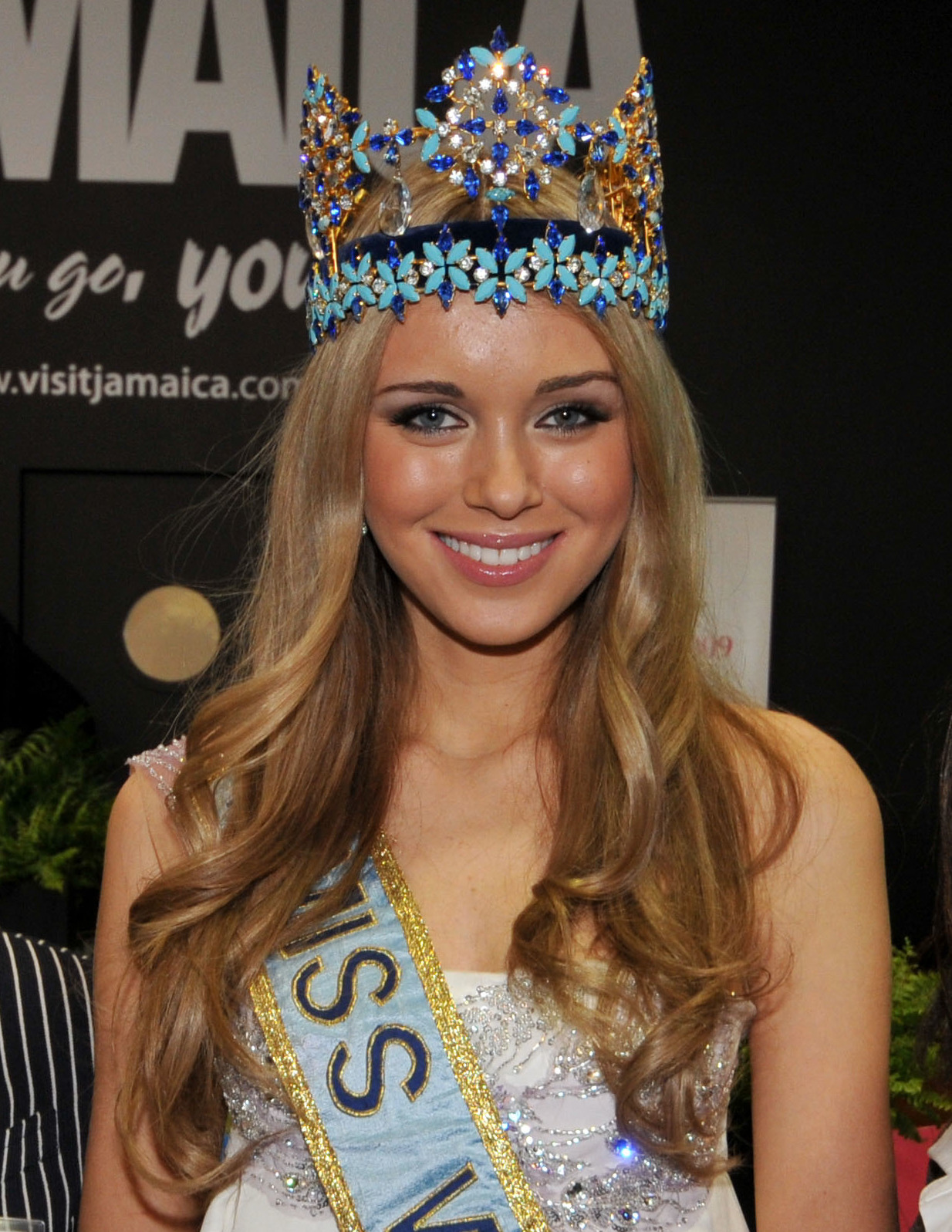 Miss World 2008